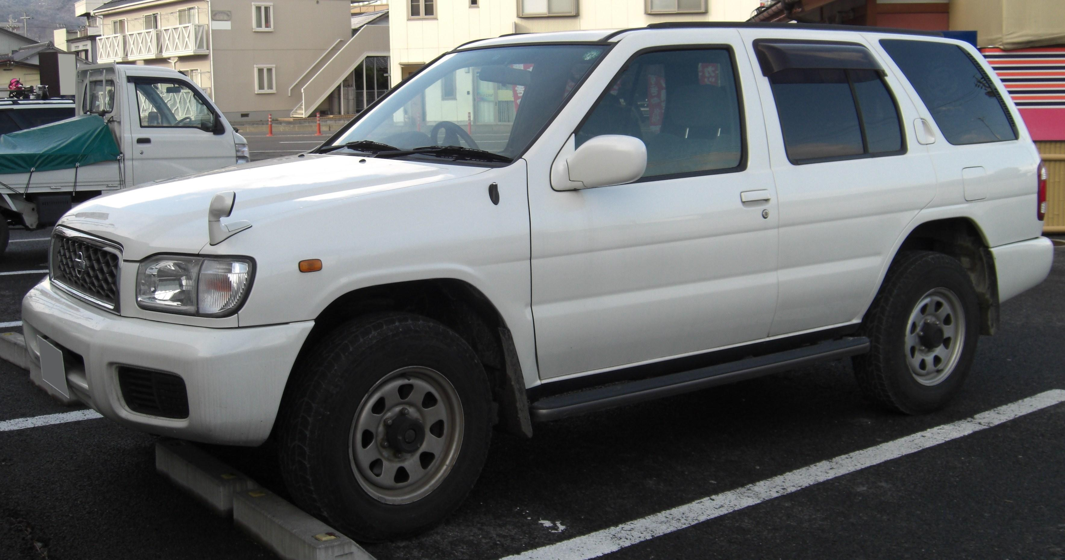 Nissan Terrano